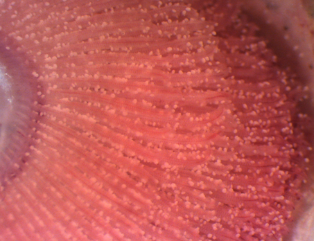 Gills of European sea bass showing heavy infection with Amyloodinium ocellatum (Dr P. Beraldo, University of Udine